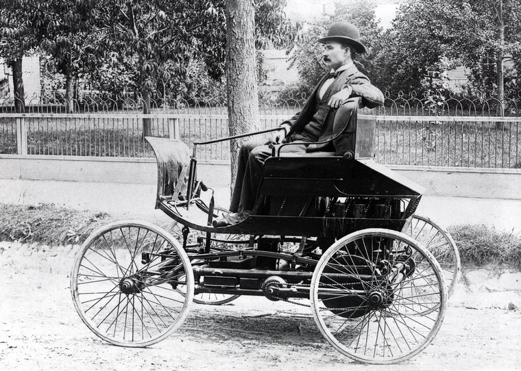 Image caption in book says that photo is c. 1885, provided courtesy of the Elwood Haynes Museum